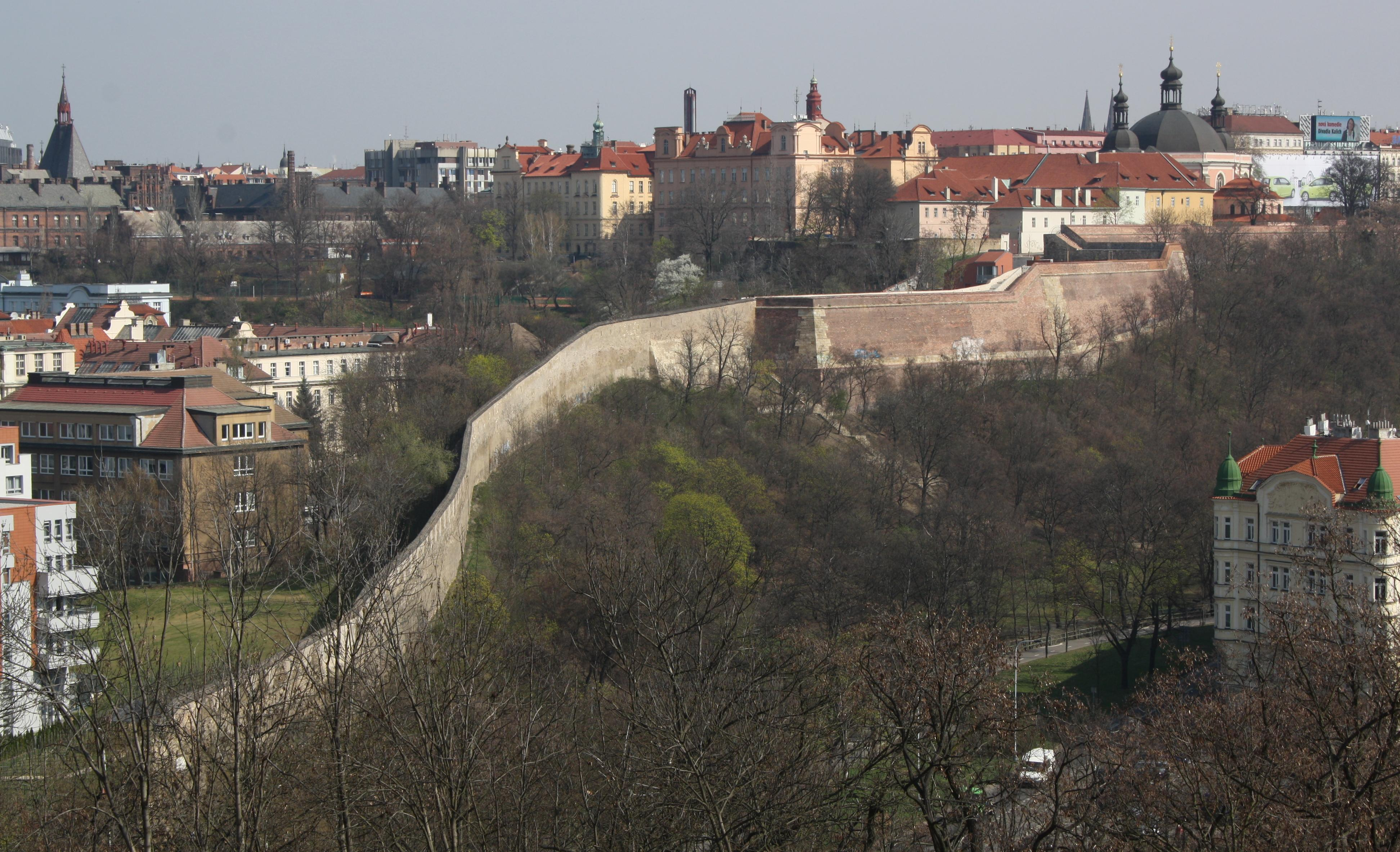 City walls of Prague from Vyšehrad, Prague, Czech Republic This photograph was taken with a DSLR from WMCZ's Camera grant.